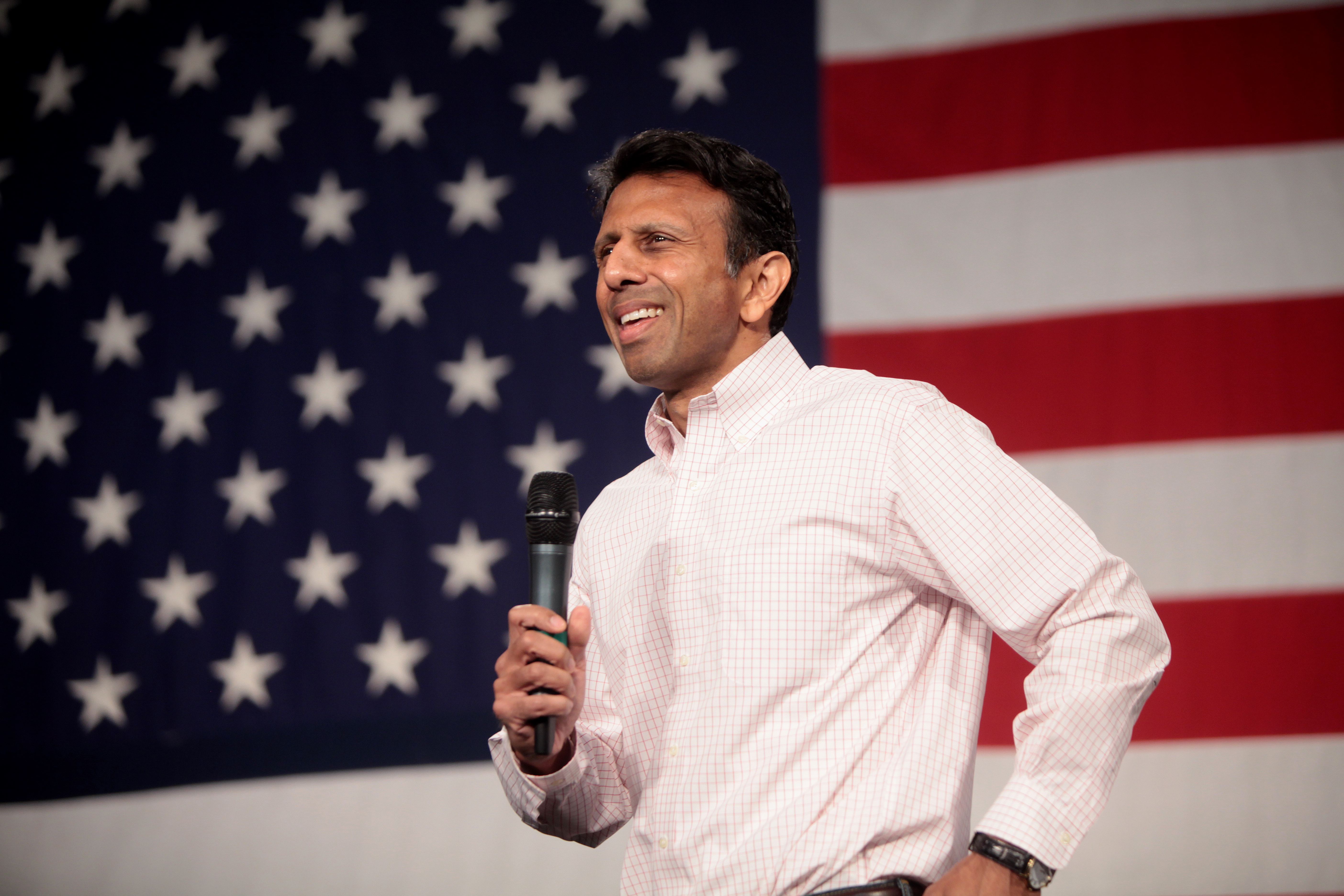 Bobby Jindal speaking at the Iowa GOP's Growth and Opportunity Party in Des Moines, Iowa on October 31, 2015.